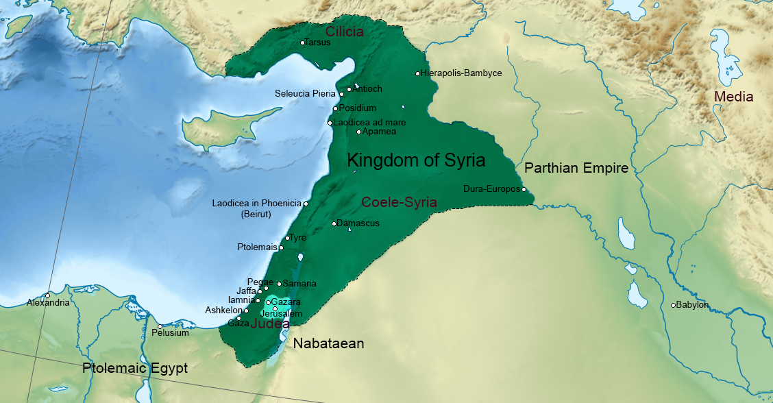 Following the defeath of Antiochus VII (died 129 BC) against Pathia, Syria contracted to the west of the Euphrates.[1] Parthia established the river as its western border and included Osroene.[2] To the north, the kingdom of Commagene bordered the Euphrates in the East, Cappadocia in the north (and included Melitene (Malatya) in its borders), the Amanus range in the west and Syria in the south (where Zeugma was the first Syrian city).[3] In the west, Cilicia between the Calycadnus river (Göksu) and the Orontes valley was under the rule of the Seleucids;[4][5] the Romans established a province of Cilicia in 102 BC but it did not include areas geographically in the region and the city of Side was the eastern point of that province.[6] In the south, Judea was a vassal principality and Syria controlled the costs and Samaria.[7] In the east, Syria controlled Dura-Europos until its fall to Parthia in 120 BC.[8]